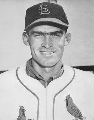 Professional baseball player Wally Moon